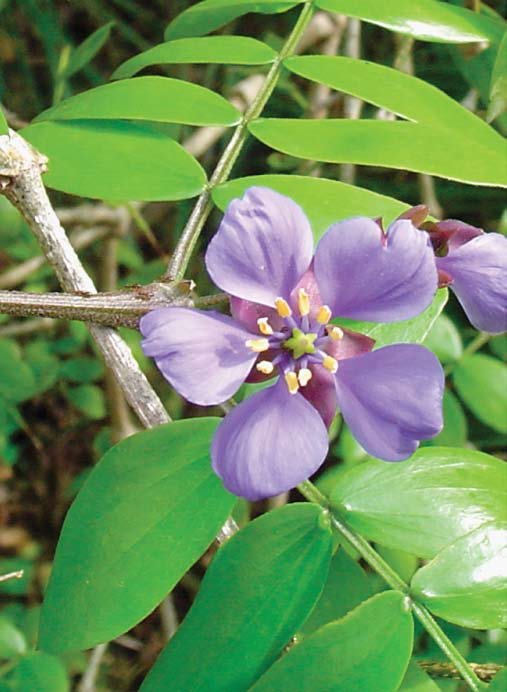 Guaiacum sanctum flowers and leaves